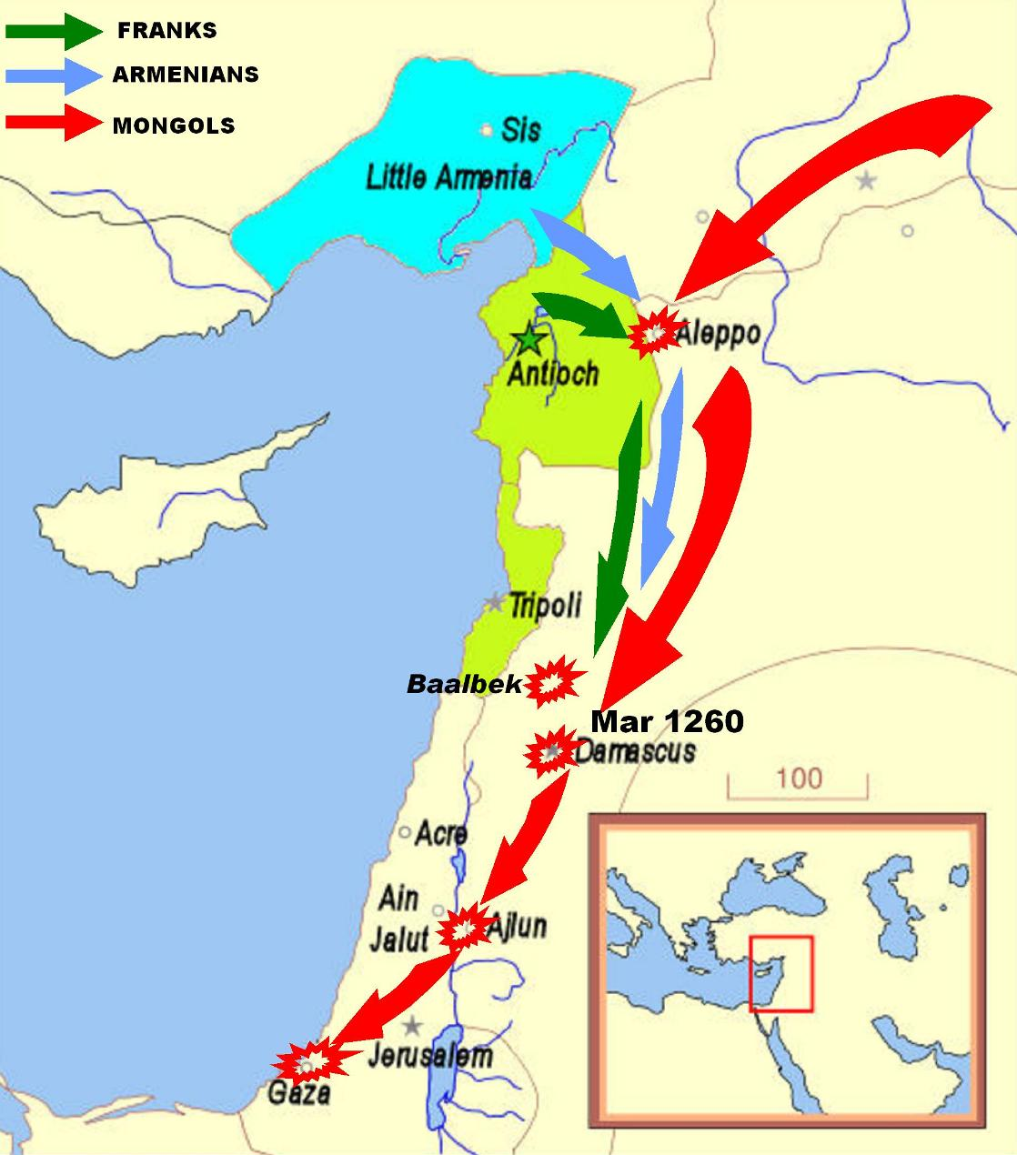 1260 Mongol conquests in the Levant.